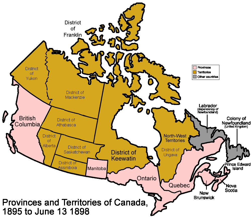 Territorial evolution of Canada Districts of the Northwest Territories 1895 saw the formation of the District of Franklin, District of Keewatin, District of Ungava and the District of Mackenzie. By this date the Provisional District of Athabasca had extended further west, now spanning the distance between British Columbia and the District of Keewatin.